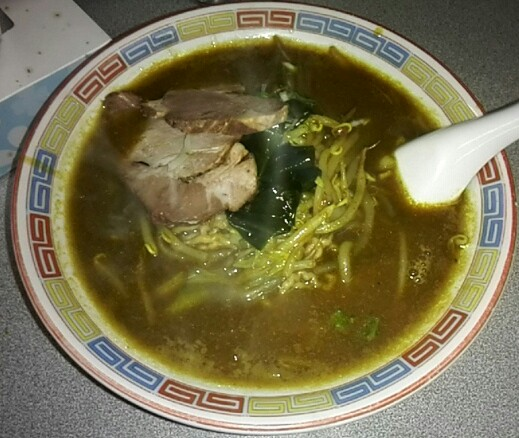 Muroran curry ramen at the Aji-no-Daio restaurant in Muroran, Hokkaido, Japan